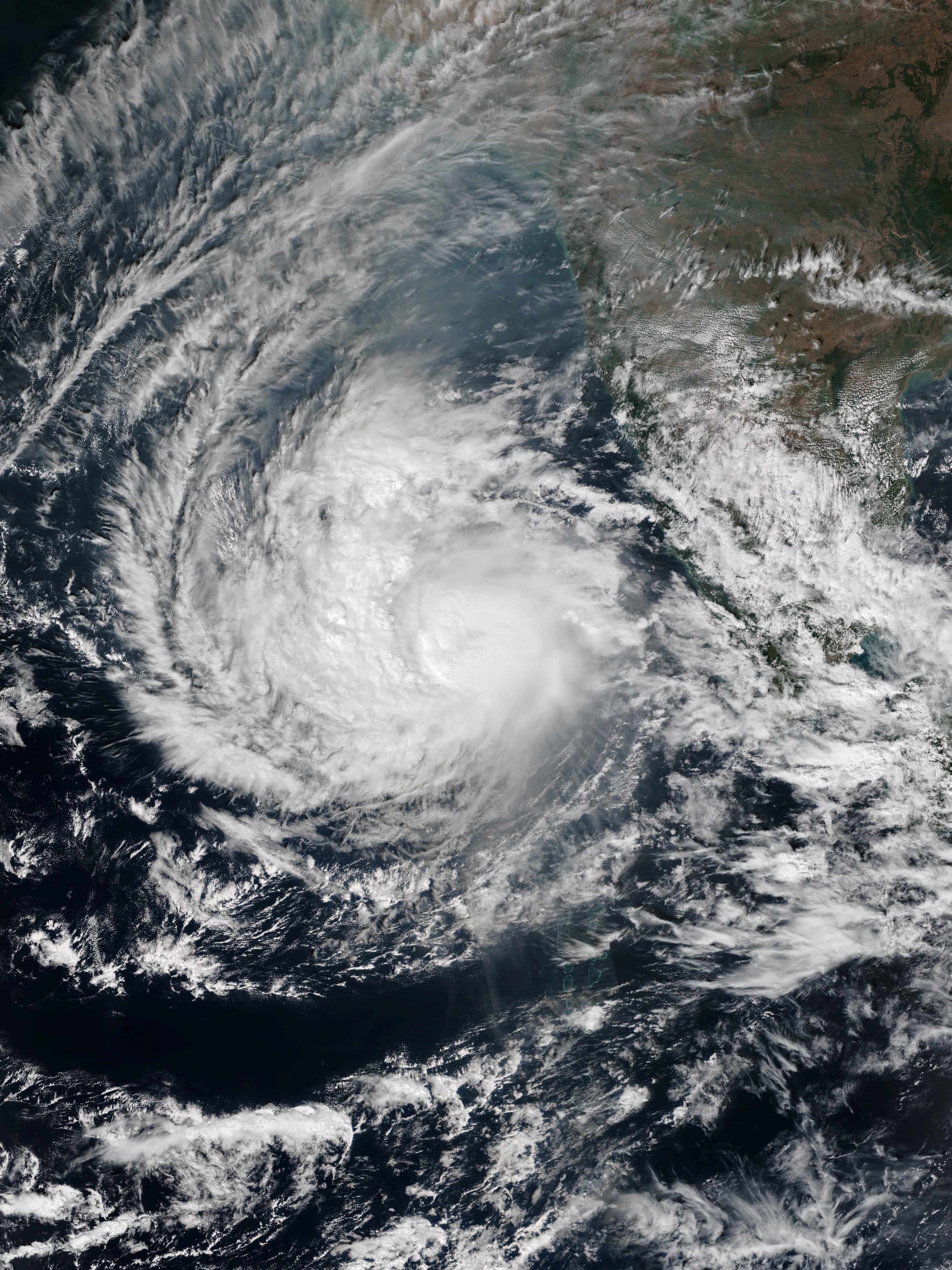 Very Severe Cyclonic Storm Ockhi nearing peak intensity over Lakshadweep, India on 2 December 2017.